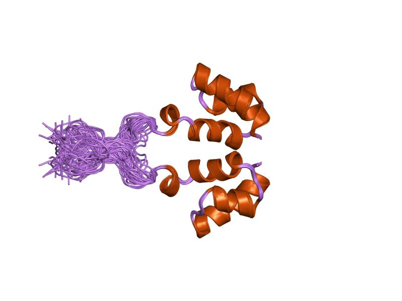 Cartoon representation of the molecular structure of protein registered with 1wjd code.